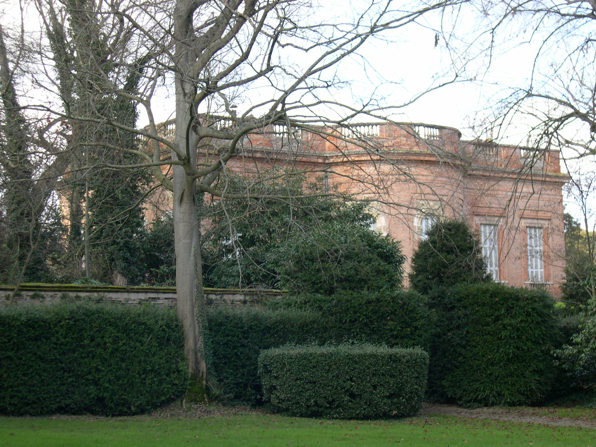 Reynerie castle in Toulouse.